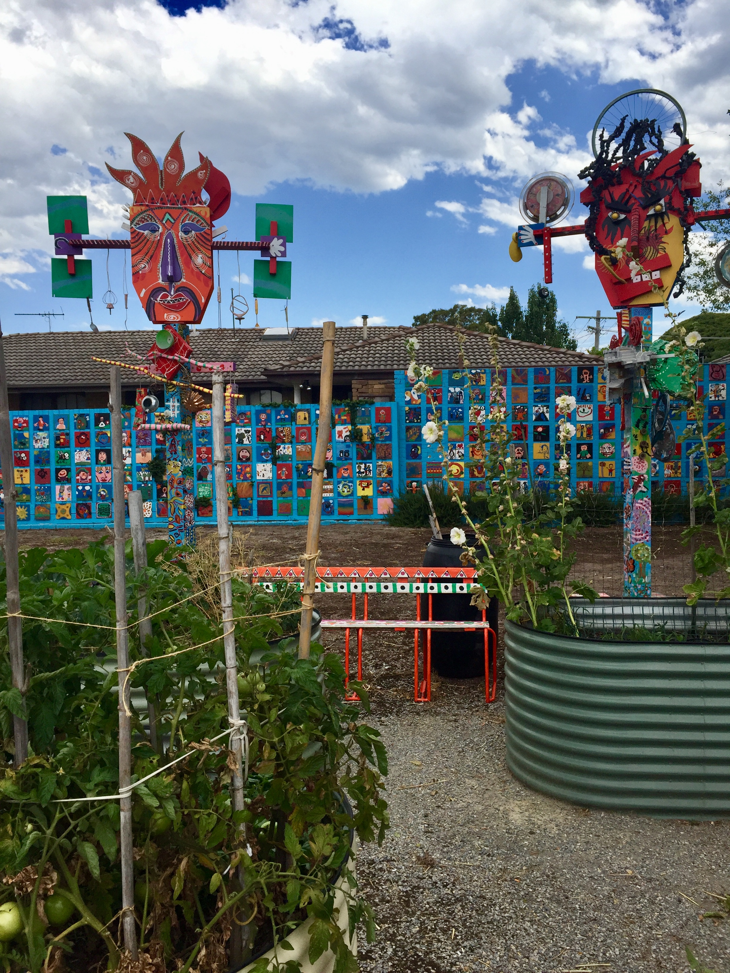 Community vegetable garden beds with ceramics, paintings and works from the Anthony Breslin Community Art Project, including tiles by local school students.